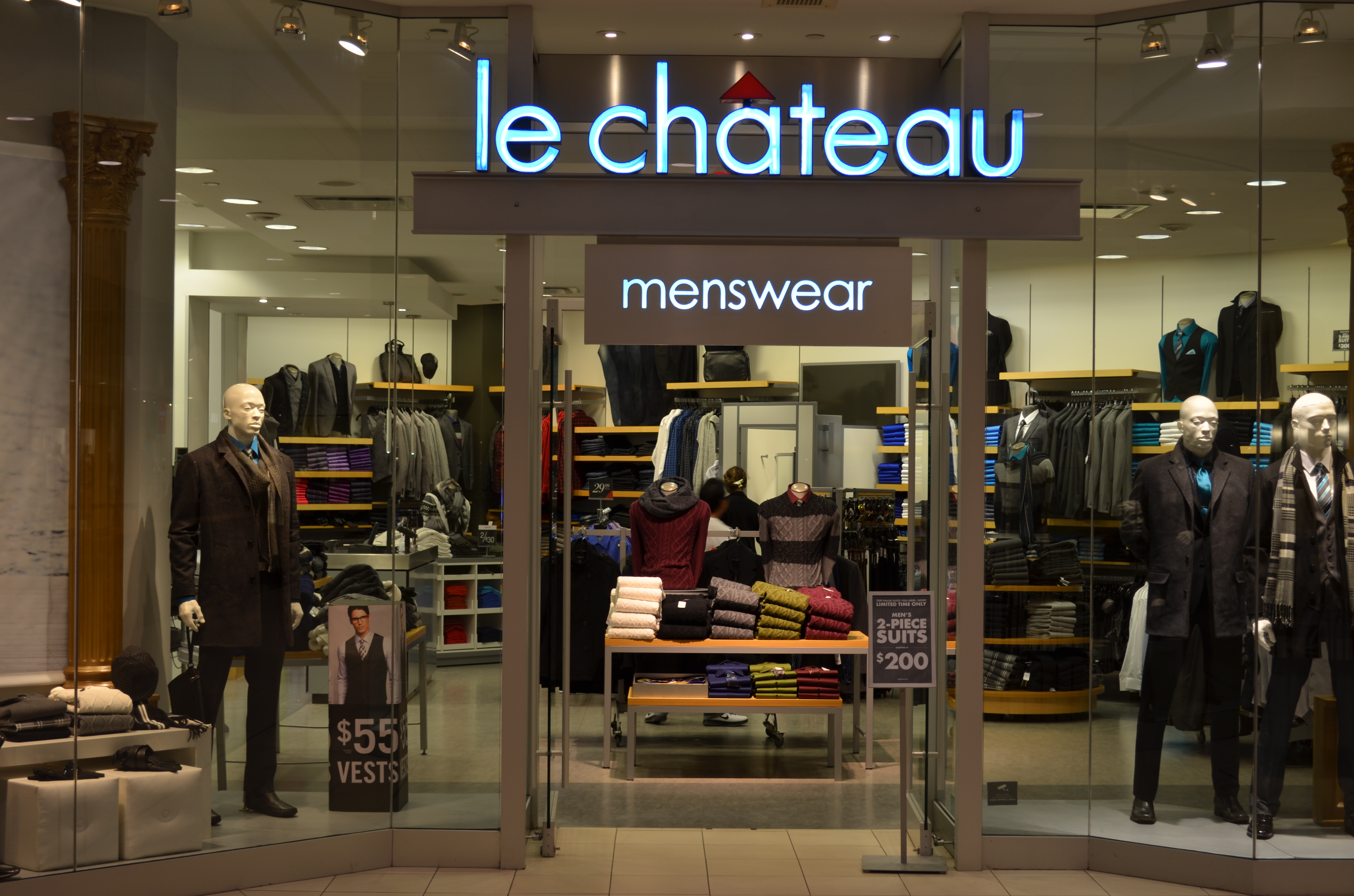 Le Château at Promenade